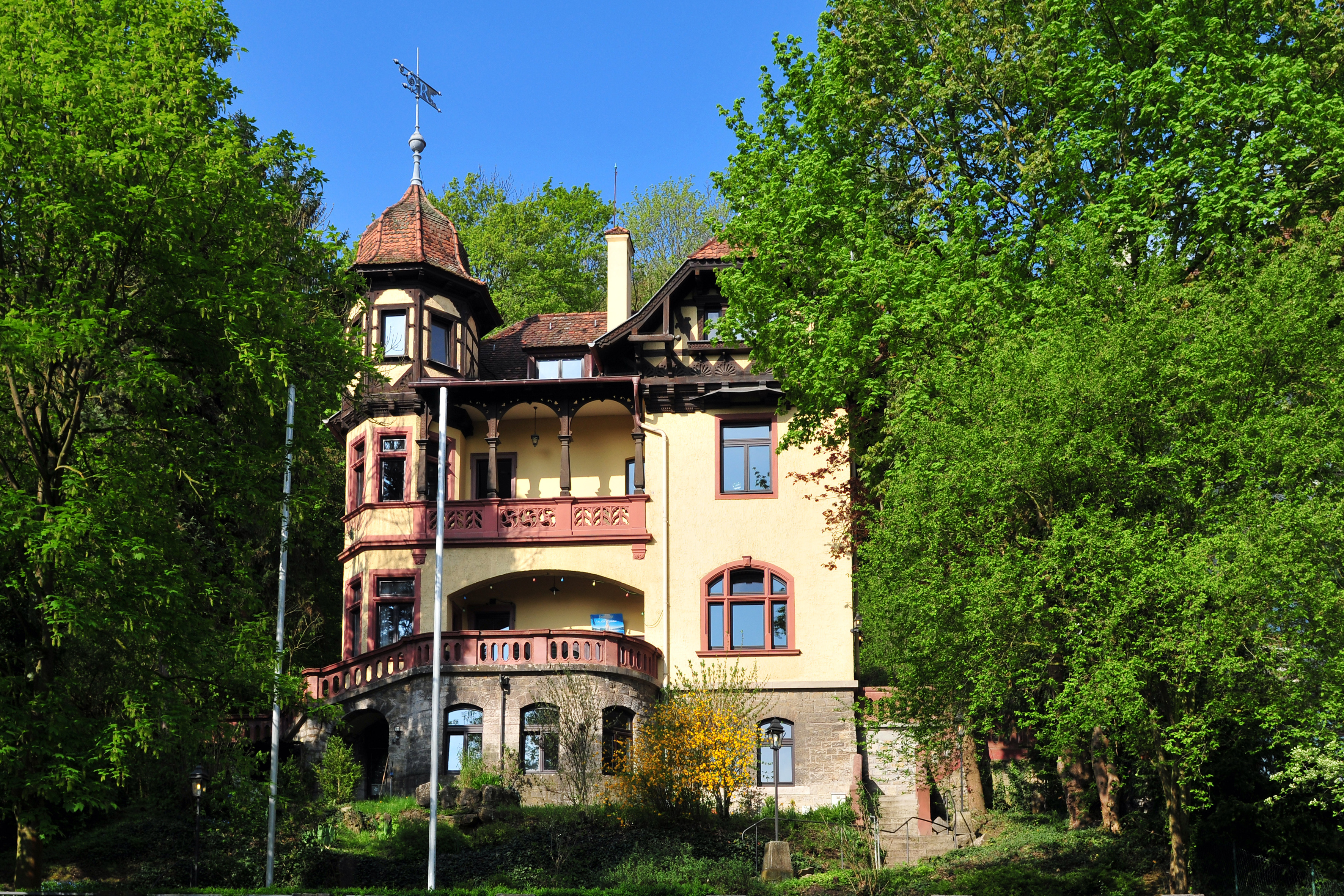 Corpshaus Makaria-Guestphalia Würzburg